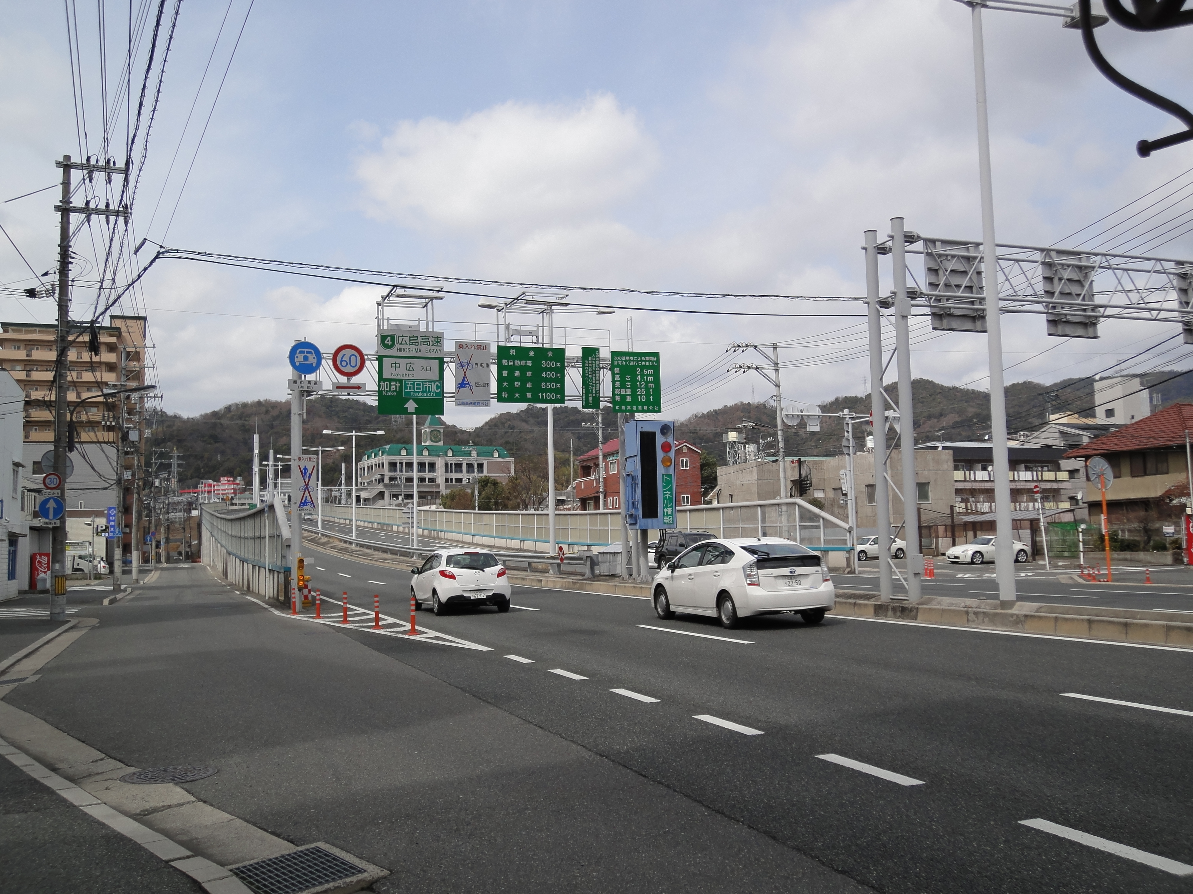 Nakahiro IC, Hiroshima Expressway, Hiroshima, Japan